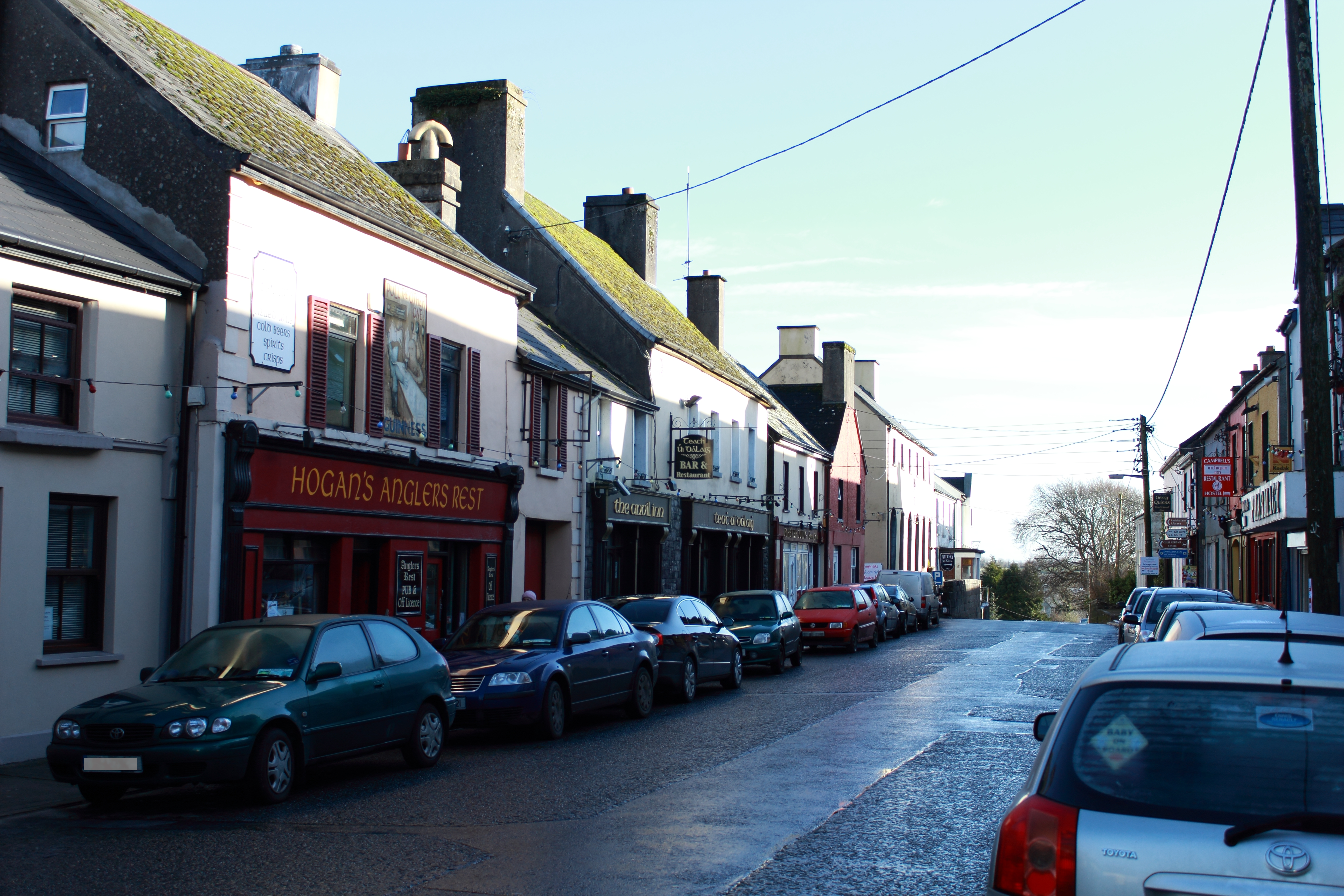 Main Street (south east) of Corofin, Coutny Clare, Ireland